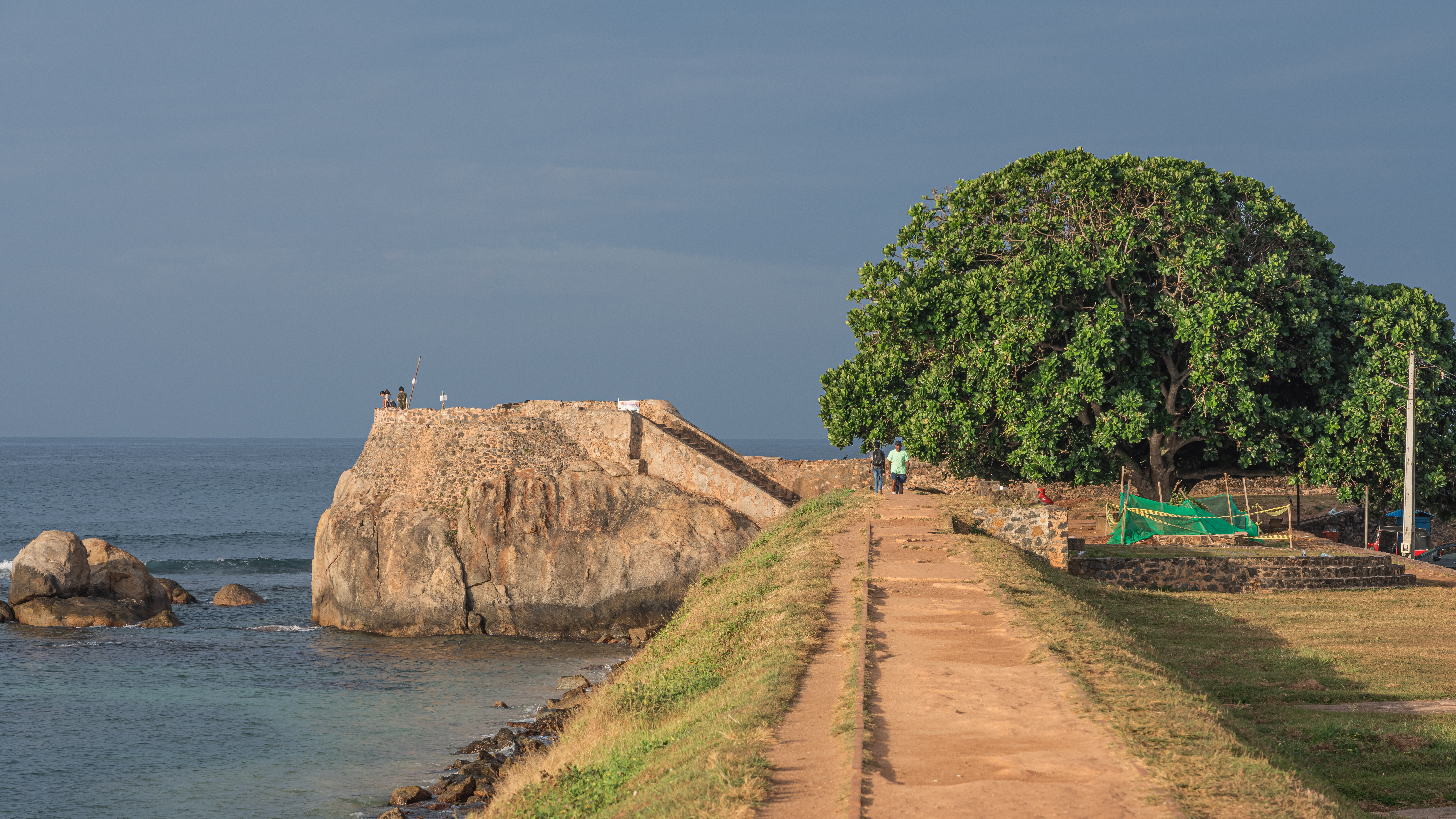 Flag Rock Bastion (southernmost point) of the Dutch Fort of Galle, Sri Lanka